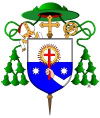 Coat of arms of Anton Alois Weber, Bishop of Litoměřice